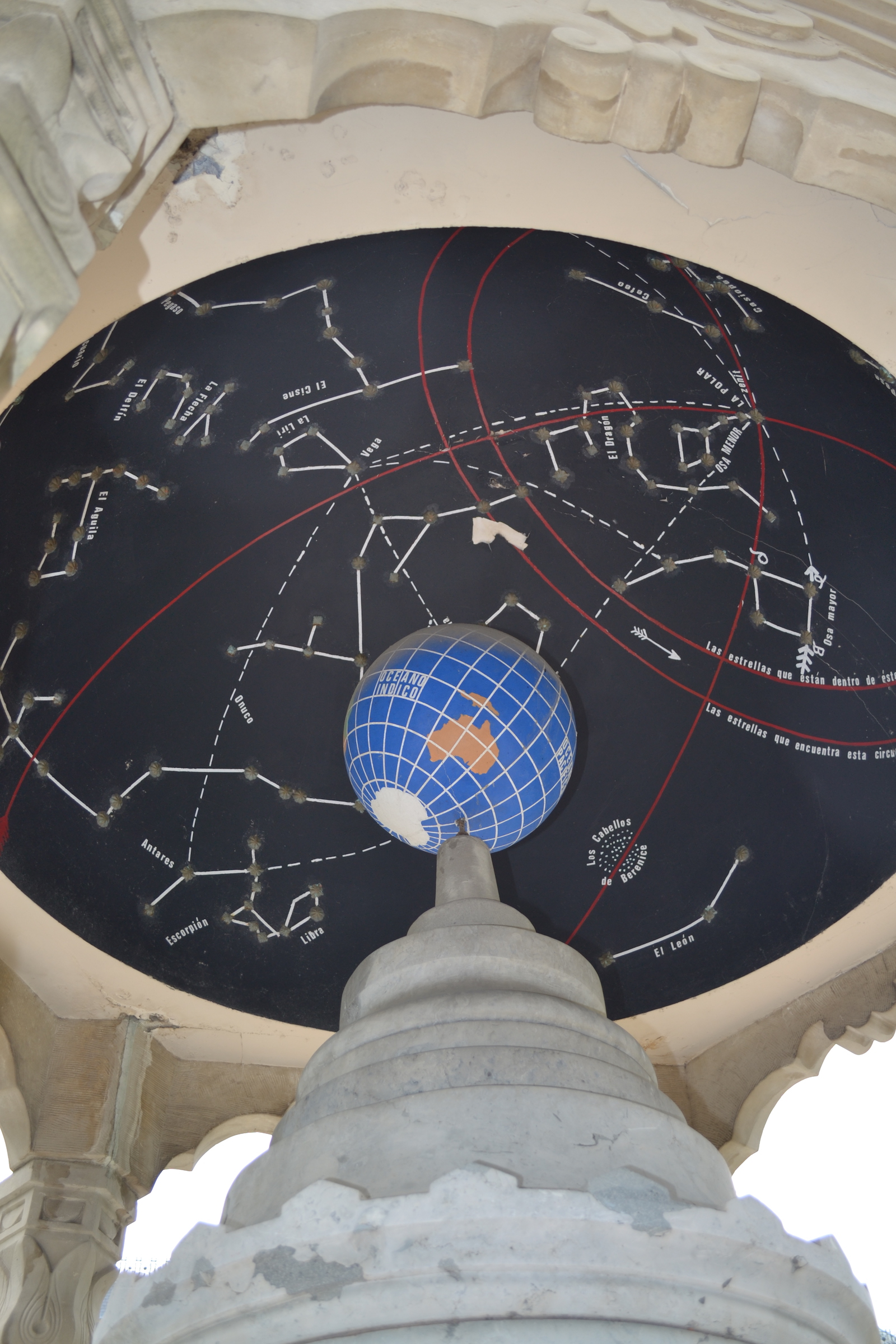 Planetarium in Gipuzkoa Plaza in Donostia-San Sebastian.